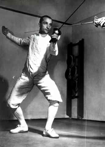 The Italian Olympic Legend, the fencer Edoardo Mangiarotti (1919-2012)